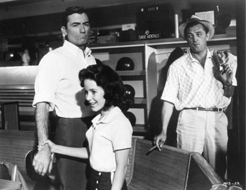 Publicity photo of Gregory Peck, Lori Martin & Robert Mitchum taken for film Cape Fear (1962). See also film still. No copyright notice.